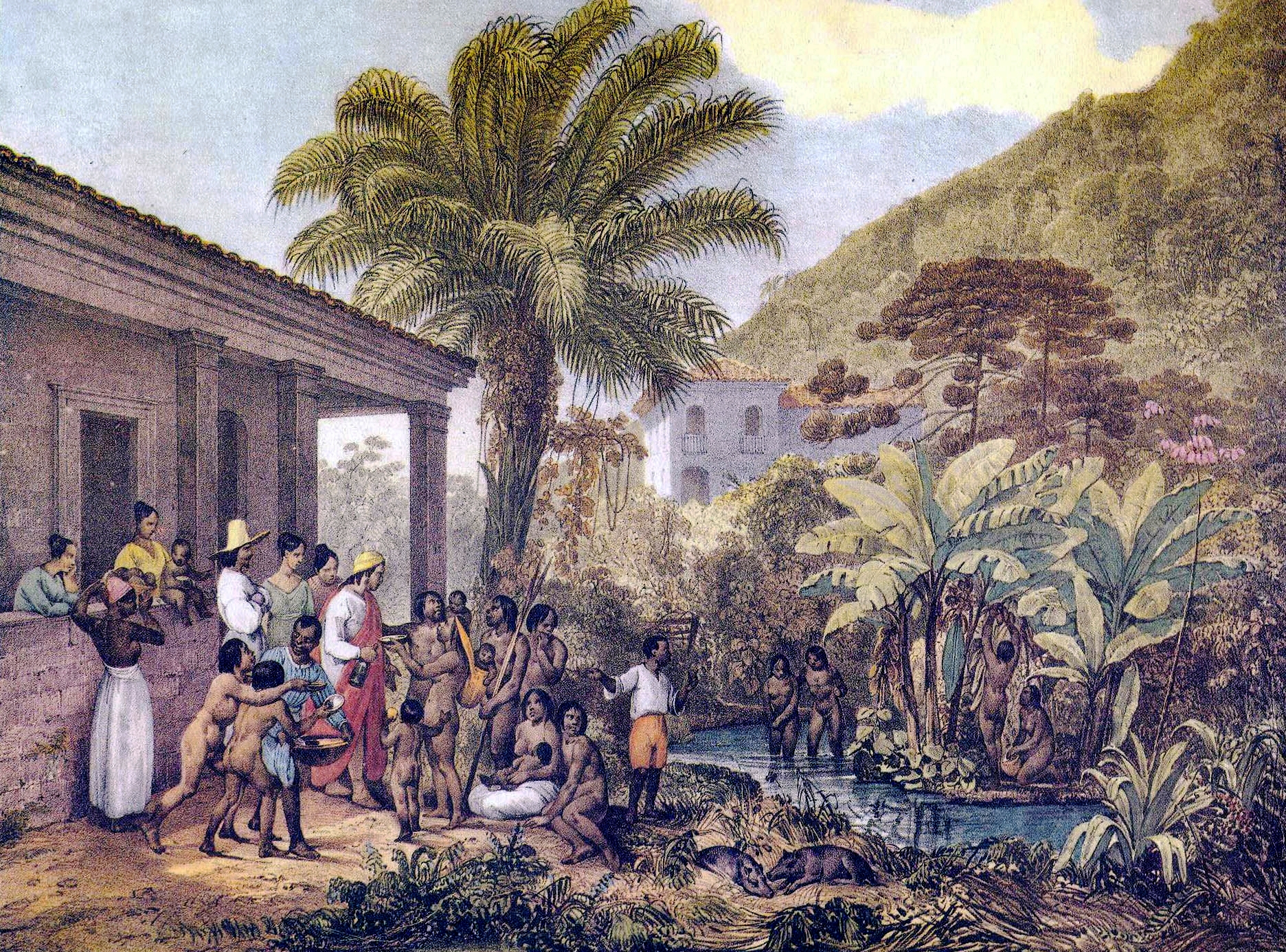 Indians visiting a Brazilian farm plantation in Minas Gerais, 1824. Painting by Johann Moritz Rugendas. (Public domain)